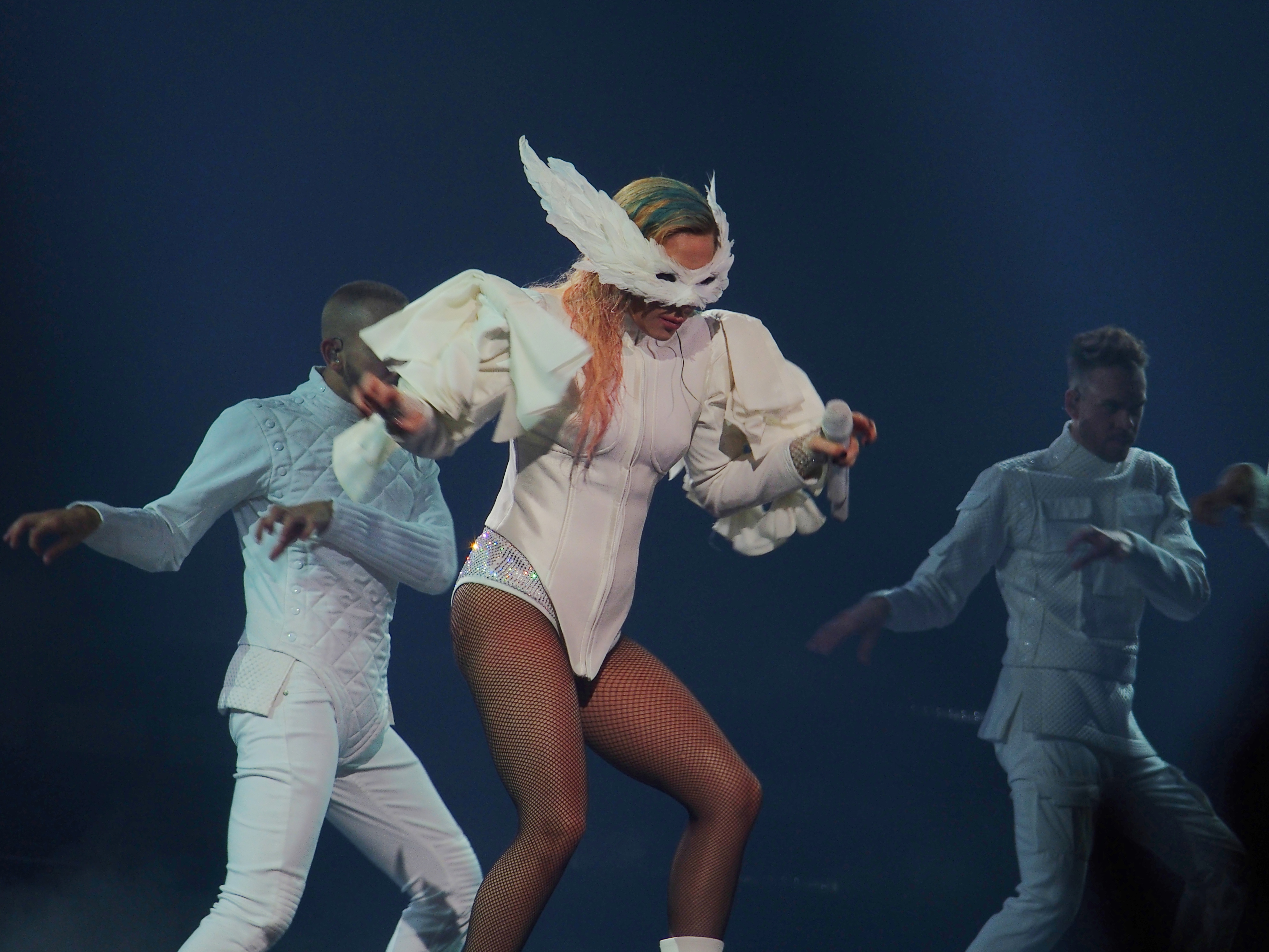 Lady Gaga, Joanne World Tour, Bell Center, Montréal, 3 November 2017 (103) Lady Gaga performing on the Joanne World Tour, in Montréal